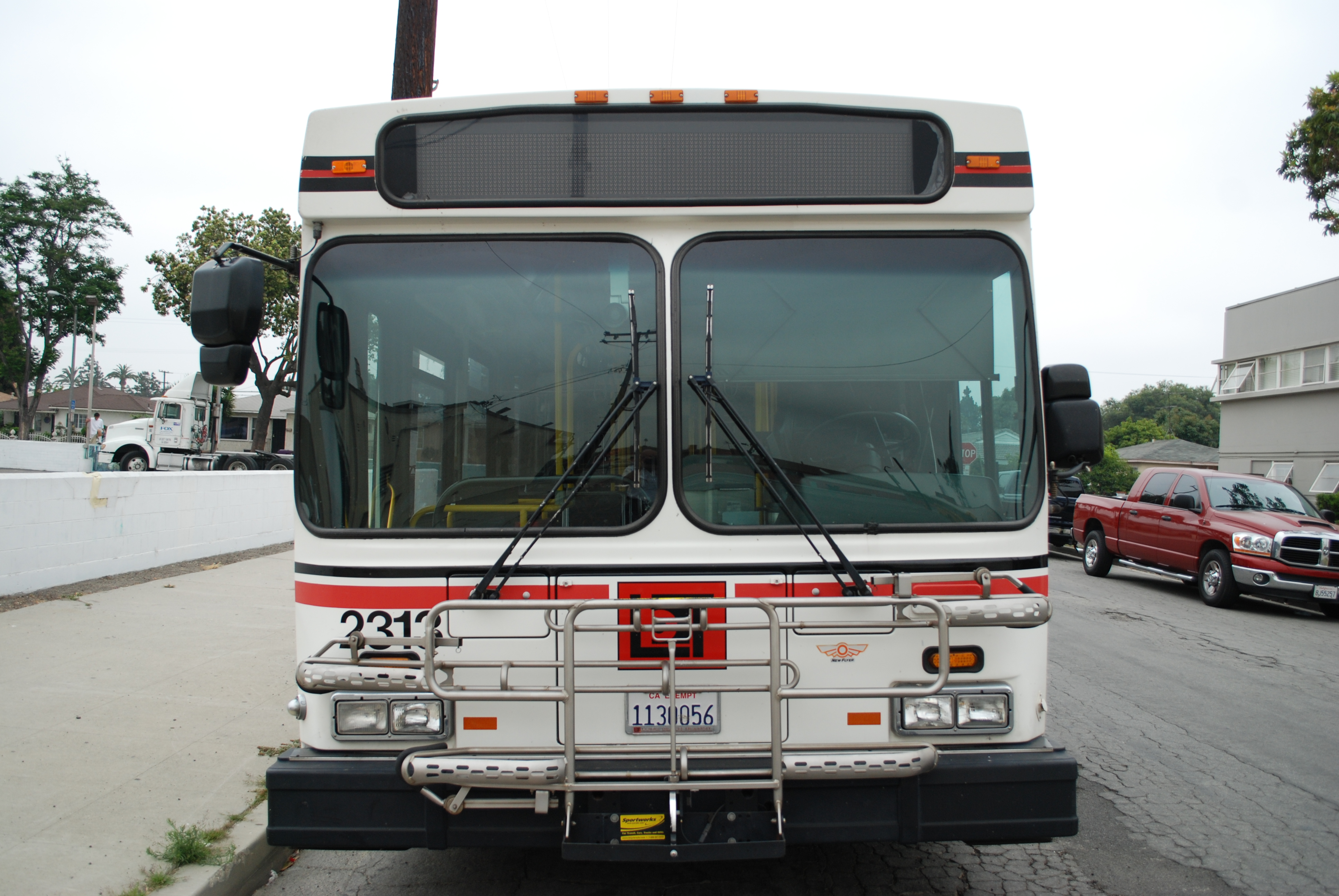 Long Beach Transit